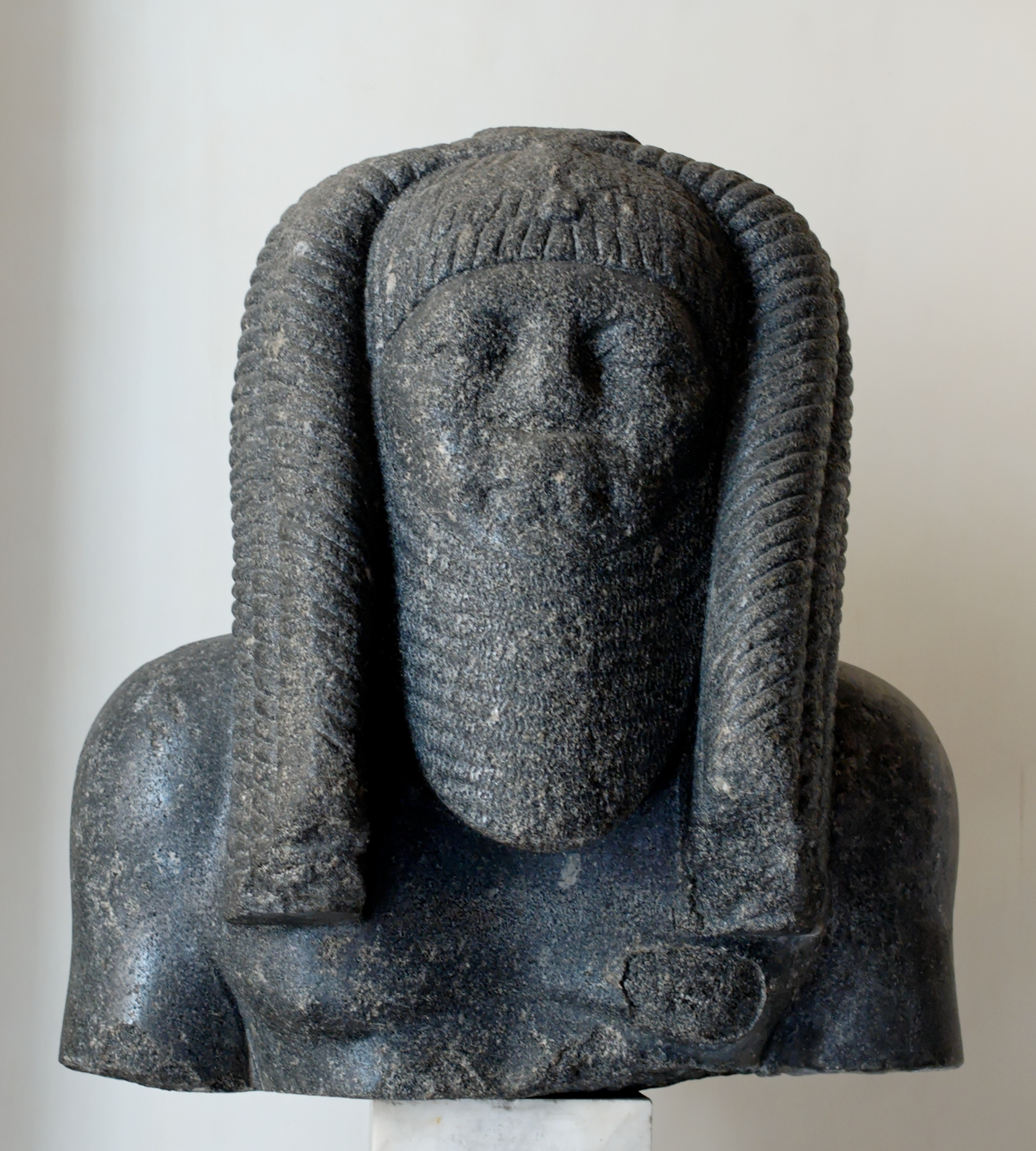 Portrait of Pharaoh Amenemhat III, from the 12th Dynasty. Grey granite.